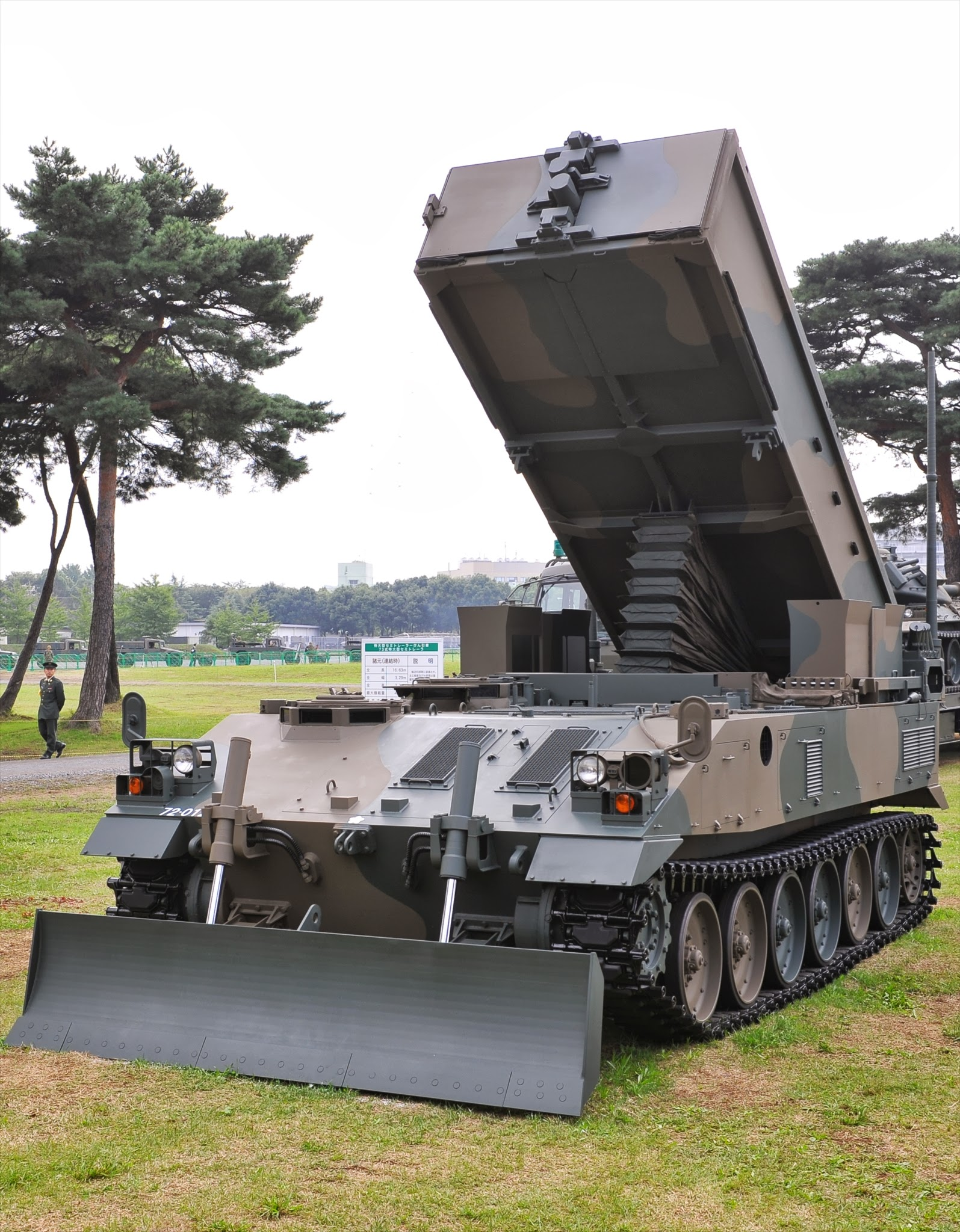 Title ９２式地雷原処理車0409.JPG Album 装備 ９２式地雷原処理車（平成２２年度自衛隊観閲式）